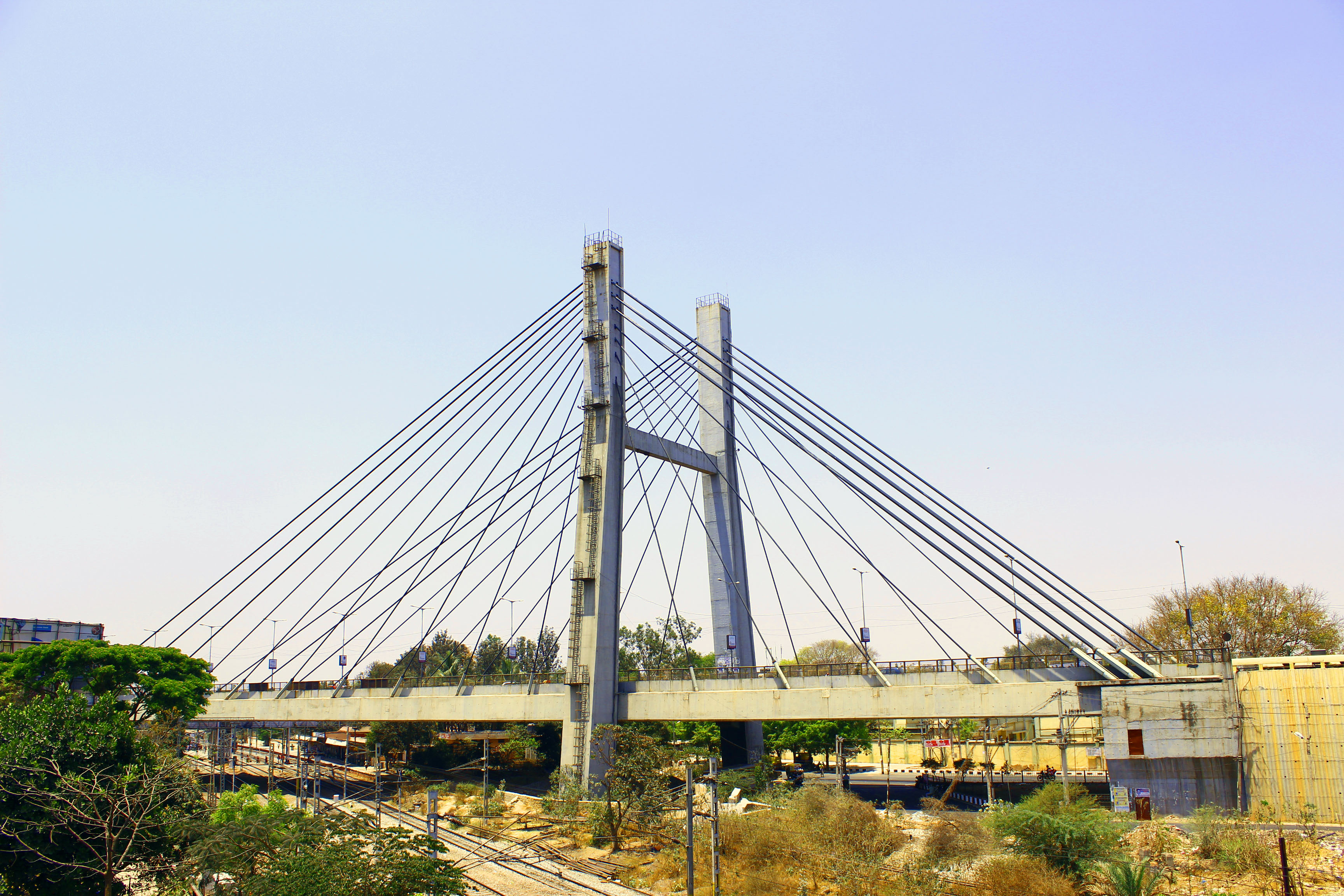 K.R.pura hanging bridge